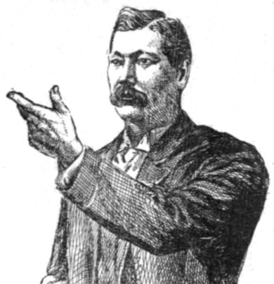 A sketch of Oregon attorney and jurist Alfred S. Bennett by The Oregonian illustrator Harry Murphy in 1905.